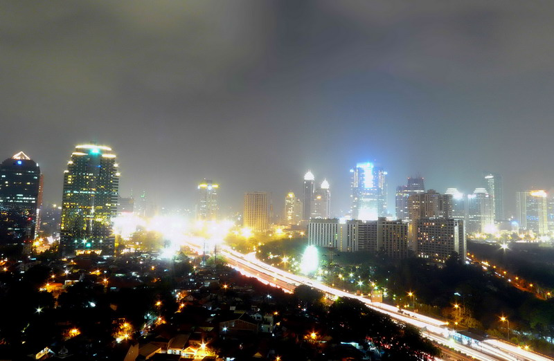 Jakarta Skyline